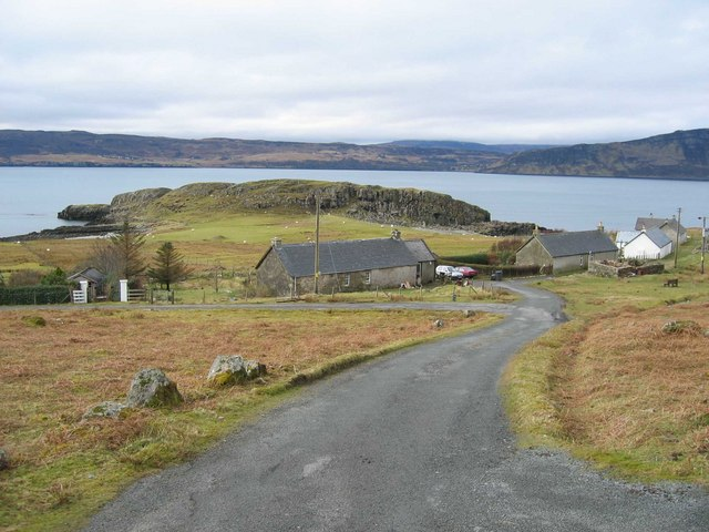 Oskaig. The community of Oskaig with Oskaig Point behind, and Skye in the distance.